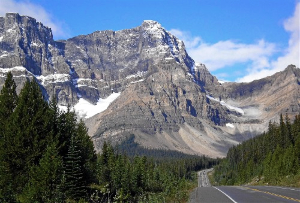 Crowfoot Mountain seen from Icefields Parkway in Banff National Park.